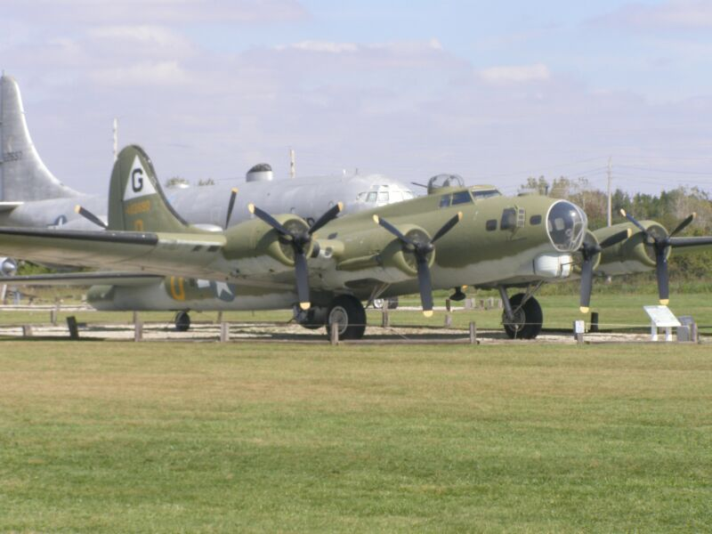 B-17G "Flying Fortress" No. 44-83690 at Grissom Air Museum, Peru, Indiana